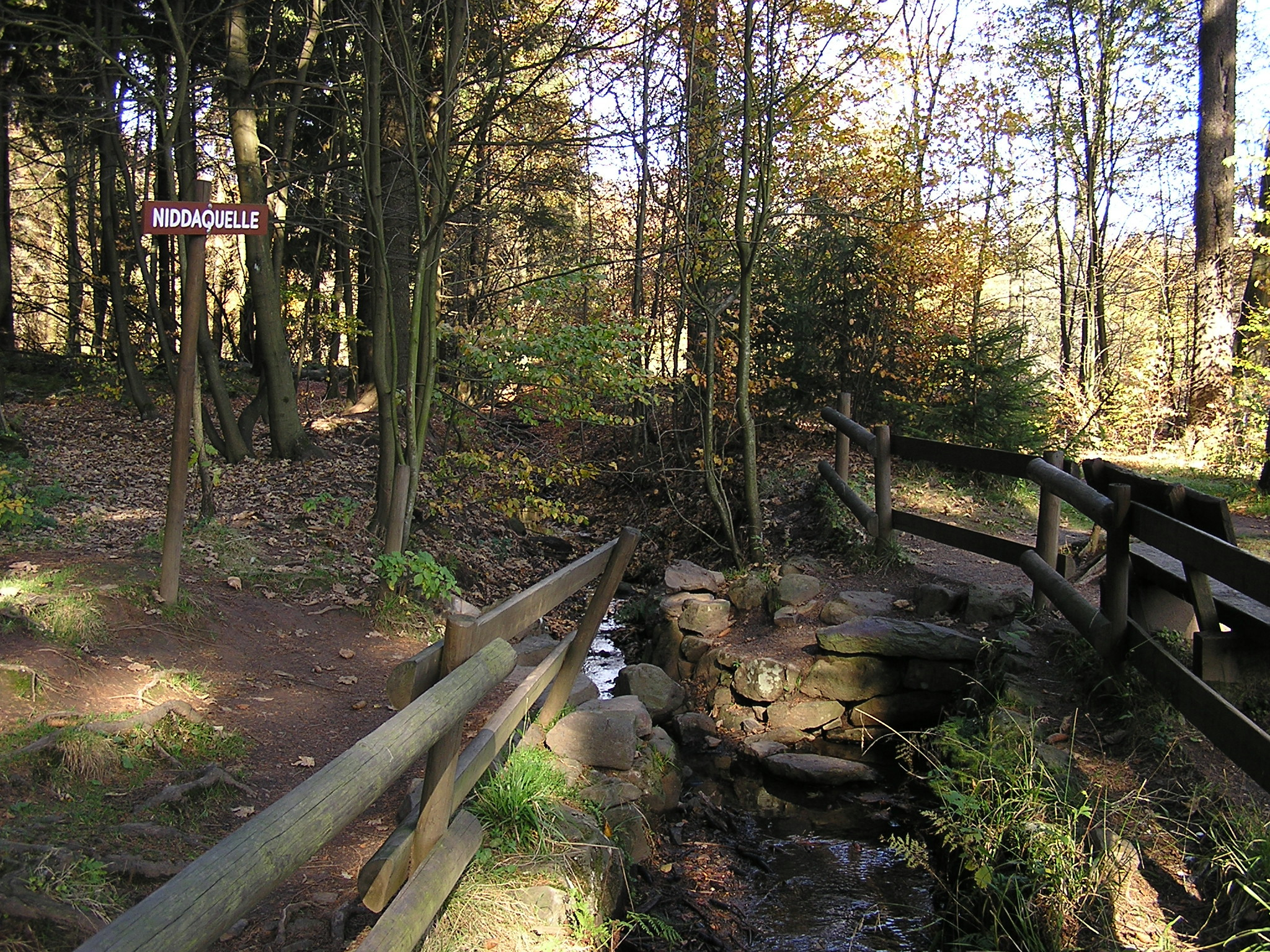 The spring of the Nidda in the Vogelsberg. On the left side, another stream from the “Landgrafenborn” flows in.